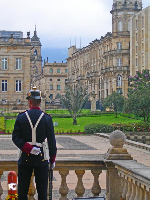 Dec. 5, 2007 Bogota, Colombia A guard stands at his post in the courtyard of the Presidential Palace in Bogota, Colombia, Dec. 5, 2007. The U.S. Department of State's Bureau of Diplomatic Security provides assistance to Colombia through a special program of presidential security.